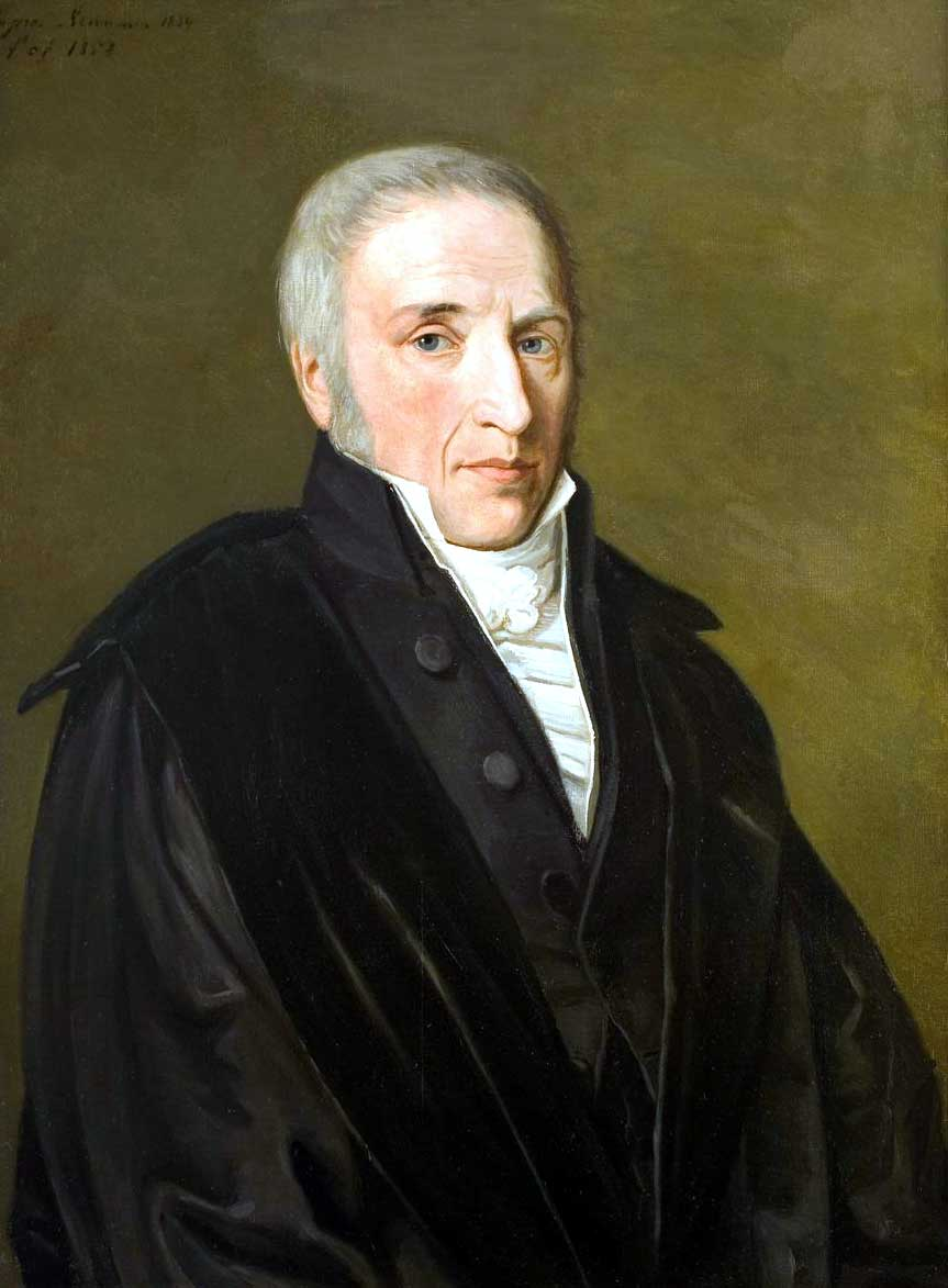 Gerard Wttewaall van Wickenburgh also: Gerard Wttewael (1776-1839 ) Dutch Agronomist